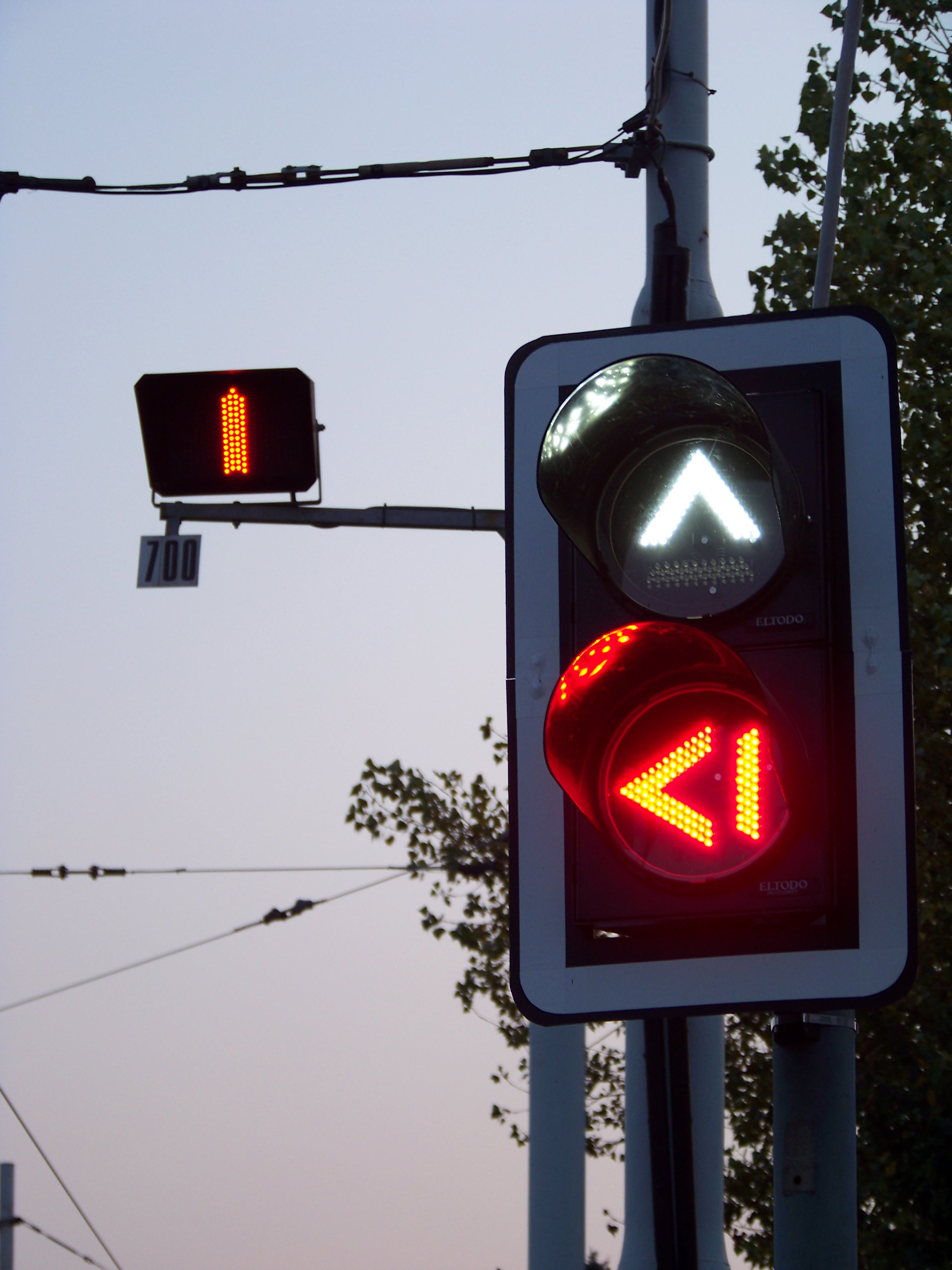 Braník, Prague, the Czech Republic. Prototype tram signal near "Nádraží Braník" track loop.